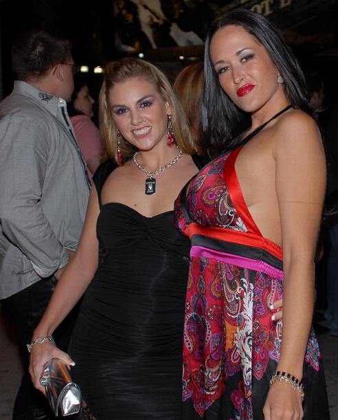 Brianna Love, Carmella Bing at Wicked Pictures party, the House of Blues on Sunset Blvd, September 19, 2007.